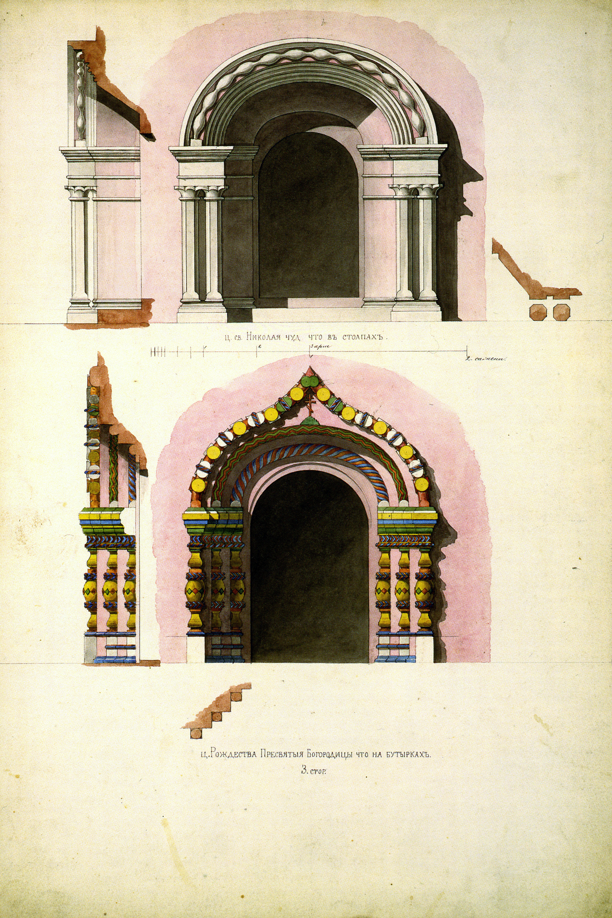 Portals of the 17th century Moscow churches. Ink and watercolour sheets from the Moscow Archaeological Society files, now in the Museum of Architecture collection.